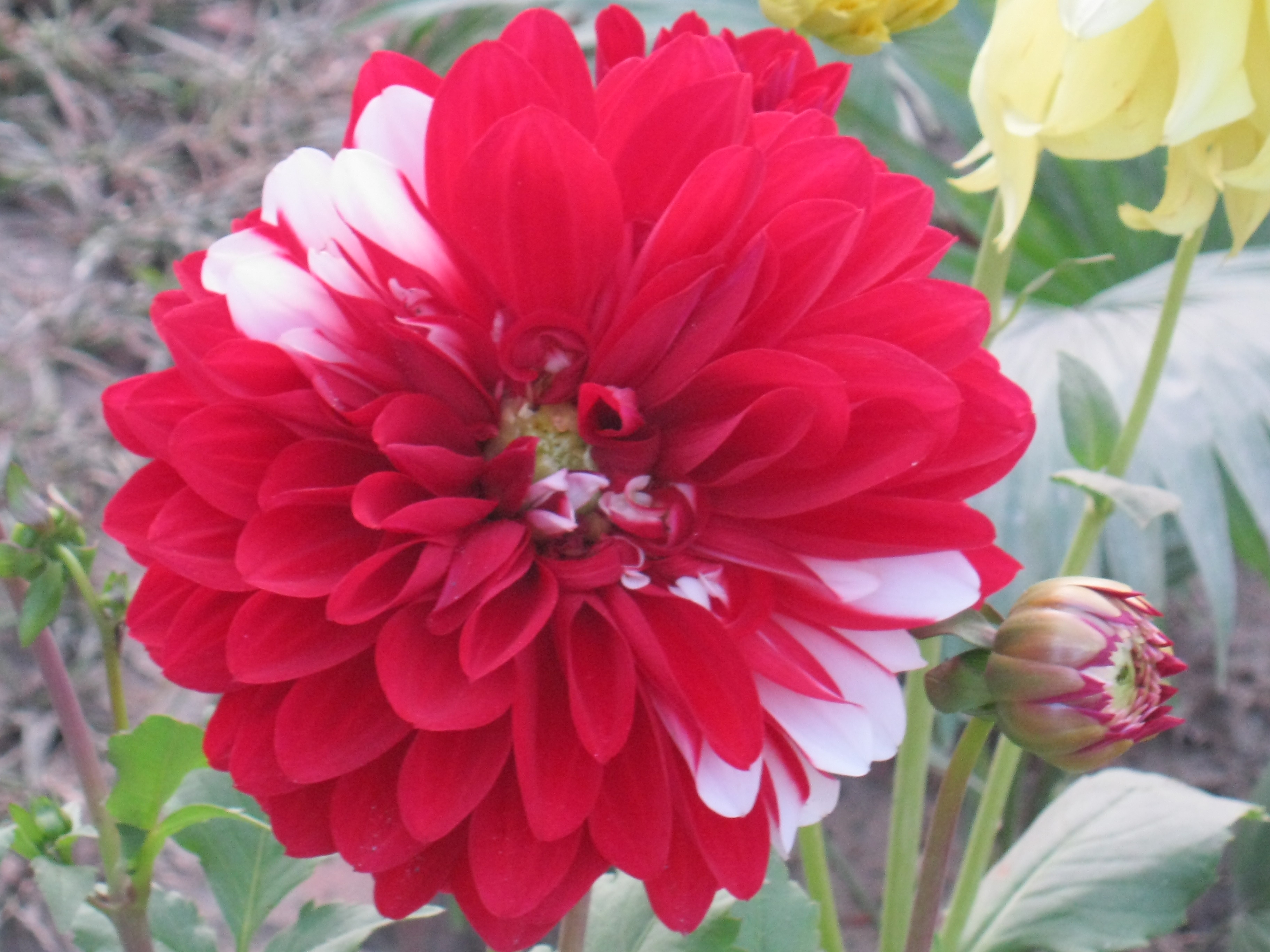 It is my own work.